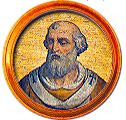 A portrait of Pope-elect Stephen, painted before 1923